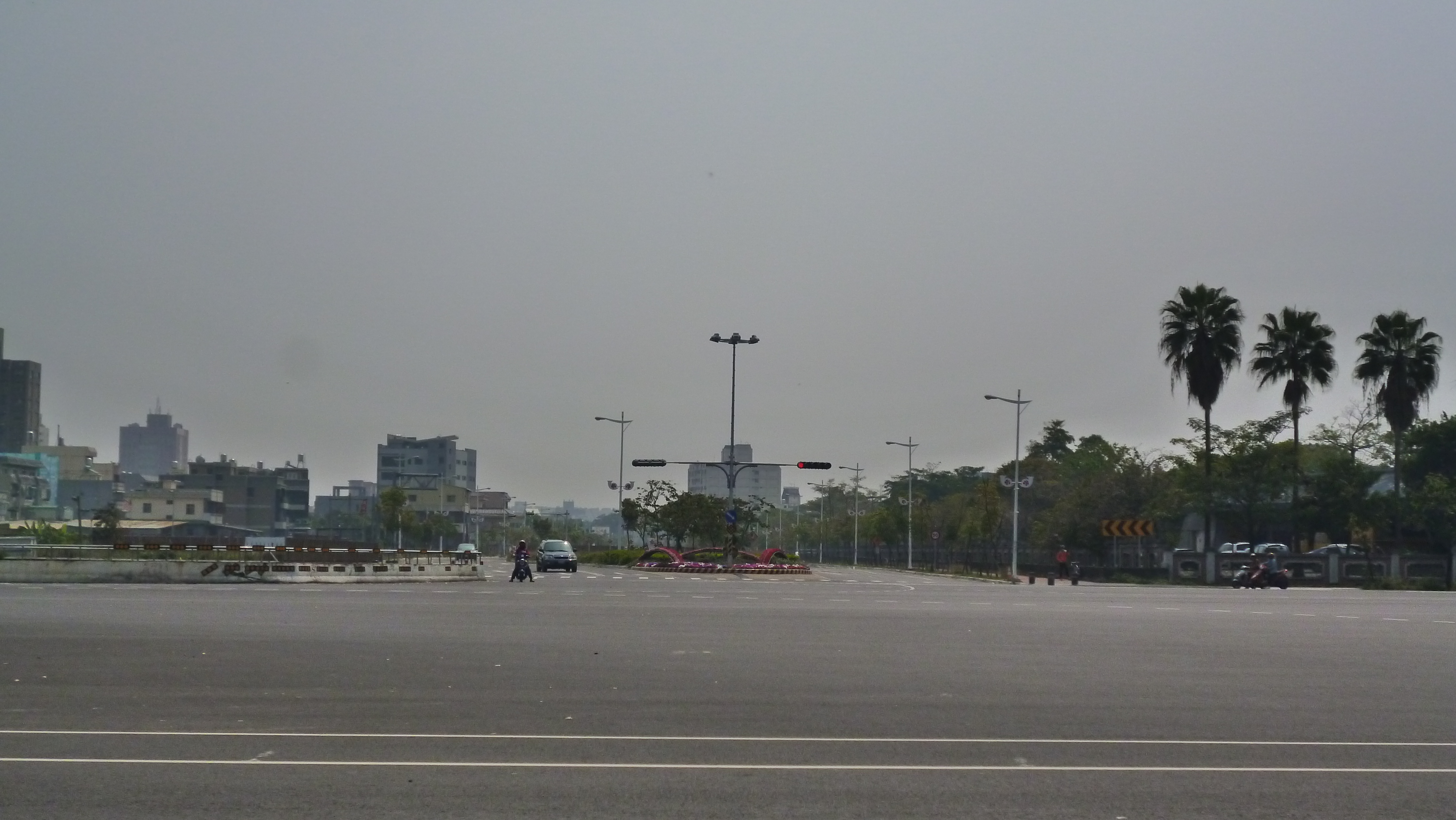 Gong Dao Yi-06